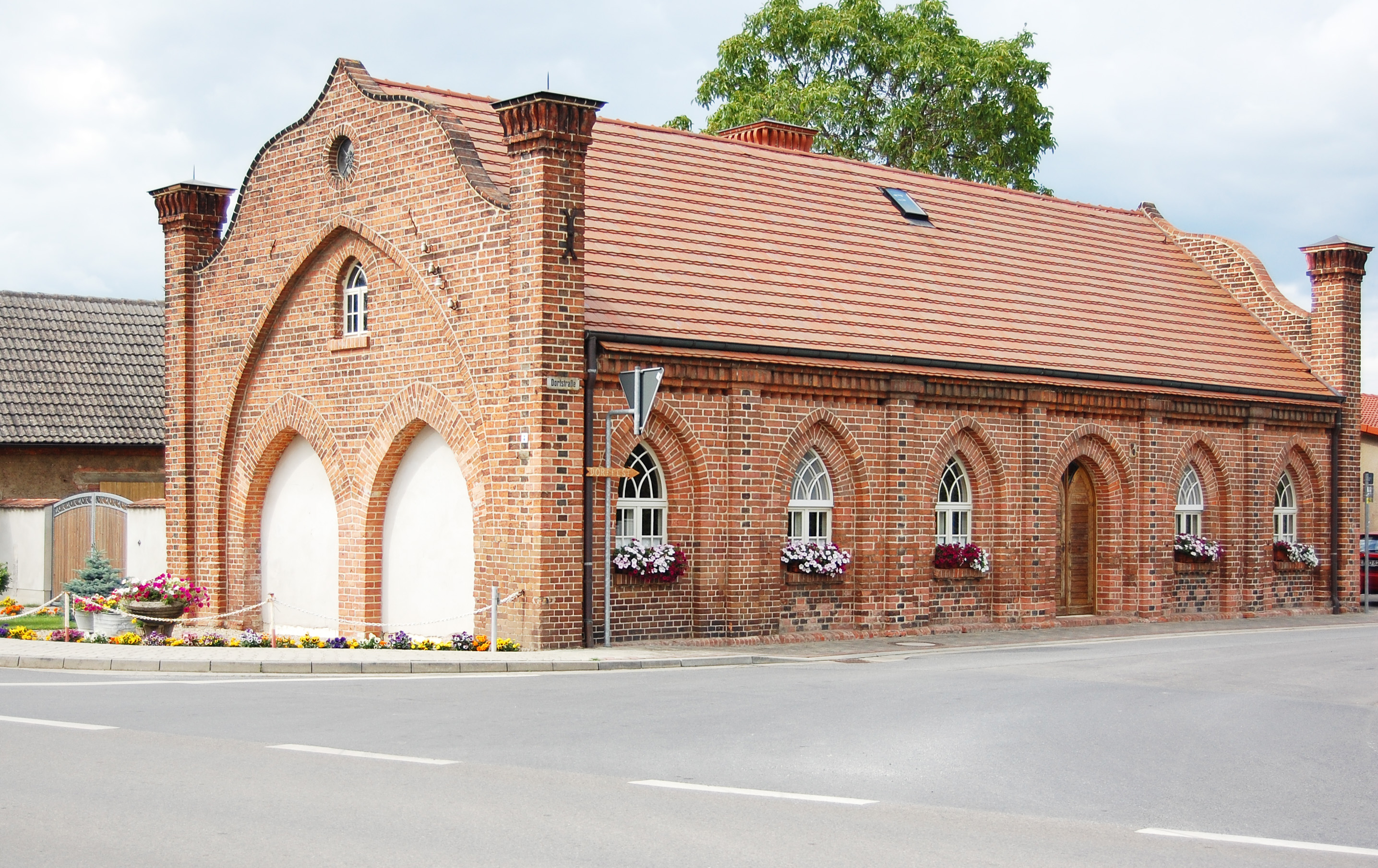 old forge in Sassleben, Stadt Calau, Brandenburg, Germany